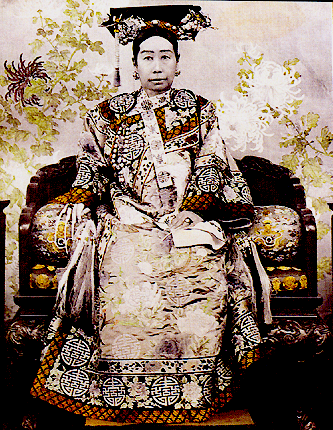 Empress Dowager Cixi of China (1835-1908)